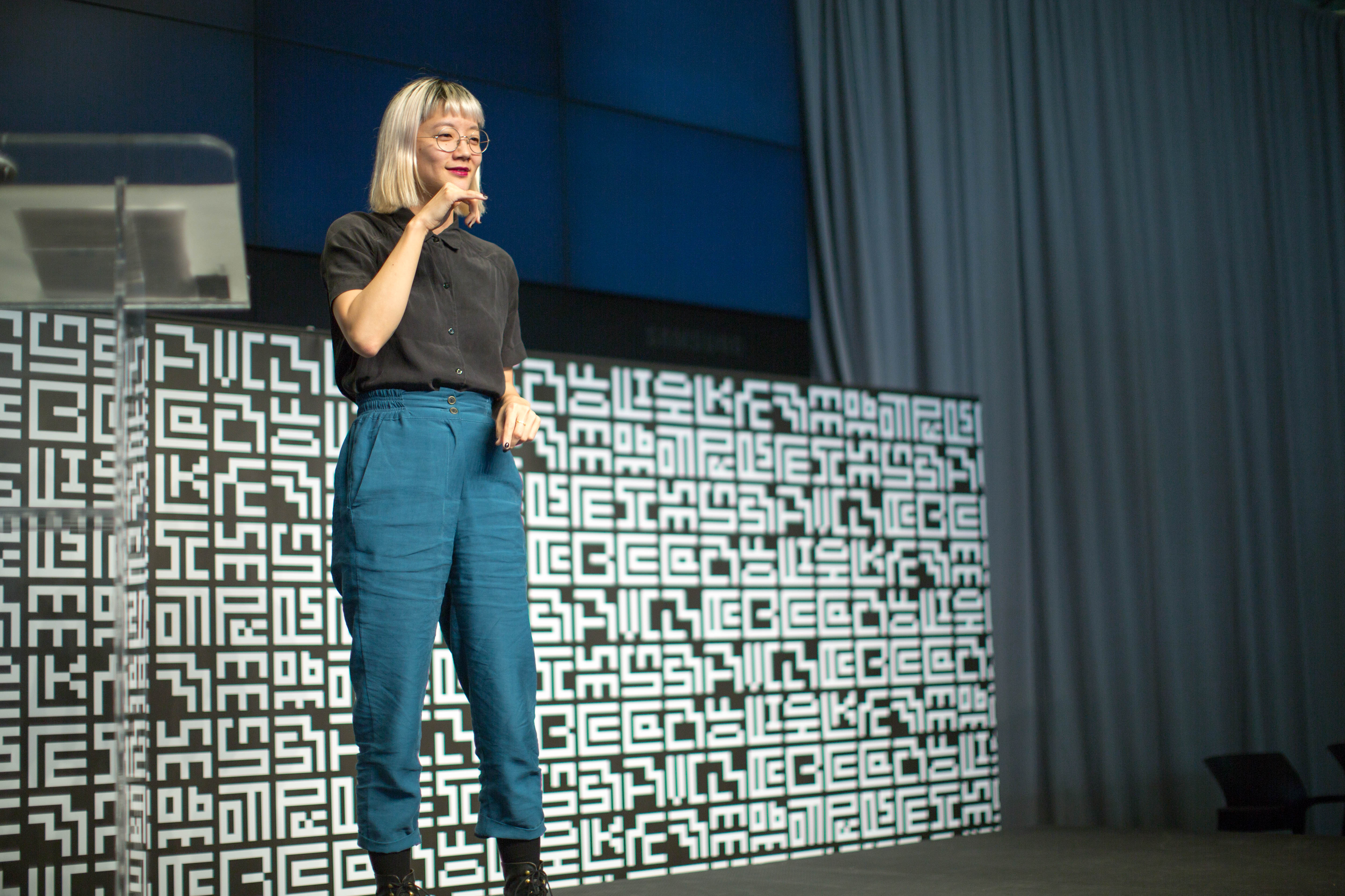 Christine Sun Kim at Cambridge in 2015